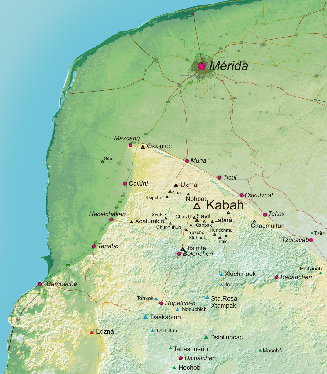 Kabah, Yucatan, Mexico: location